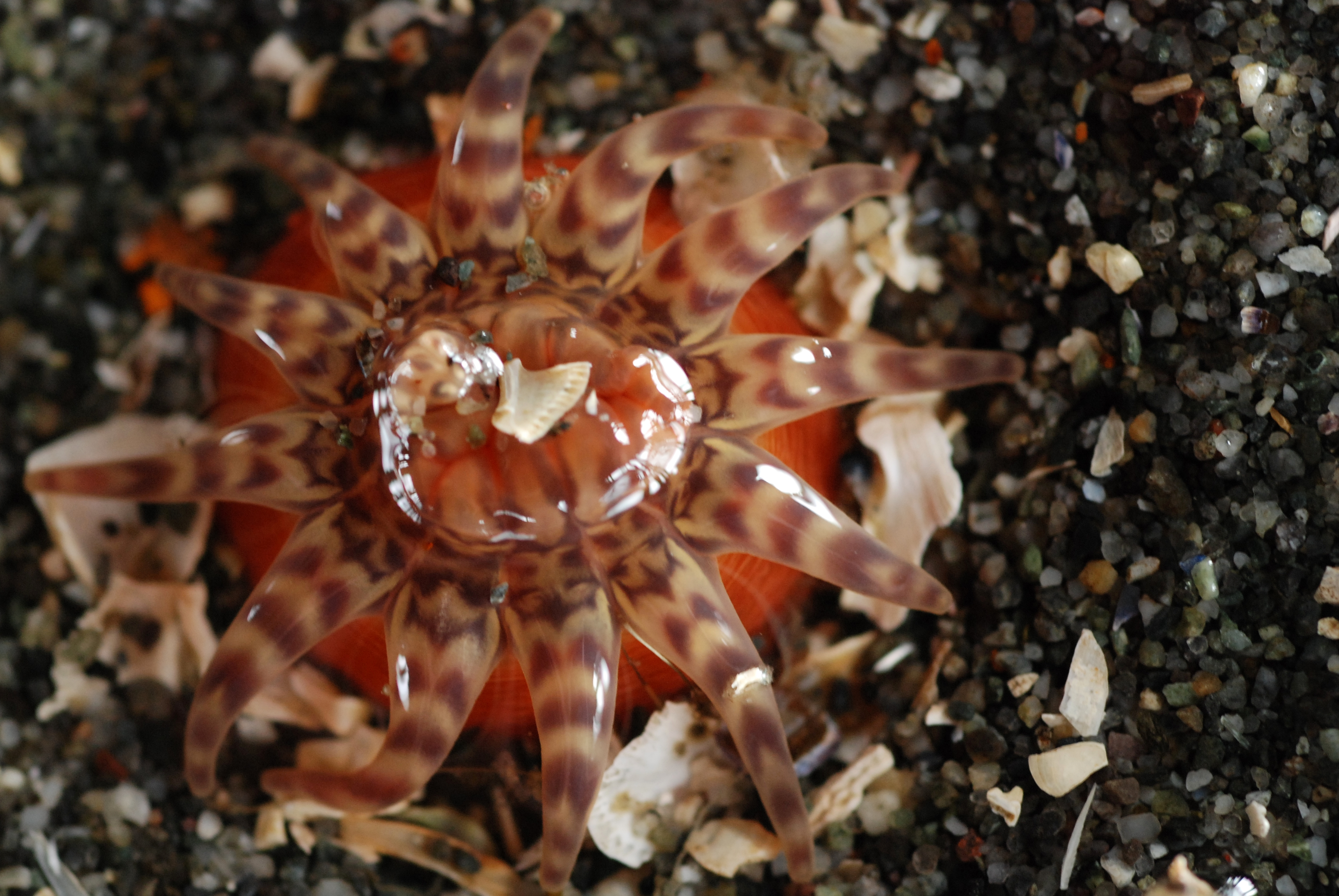 Jelly-dwelling anemone (Peachia quinquecapitata). Images taken in a tide pool in Puget Sound, Lincoln Park, West Seattle.